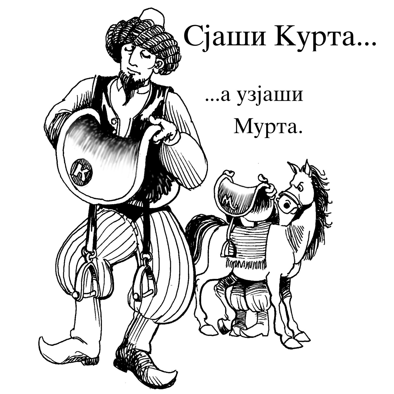 Kurta and Murta from Pera, Mika, Laza - proverbs and sayings with personal names, NeBo, 2000